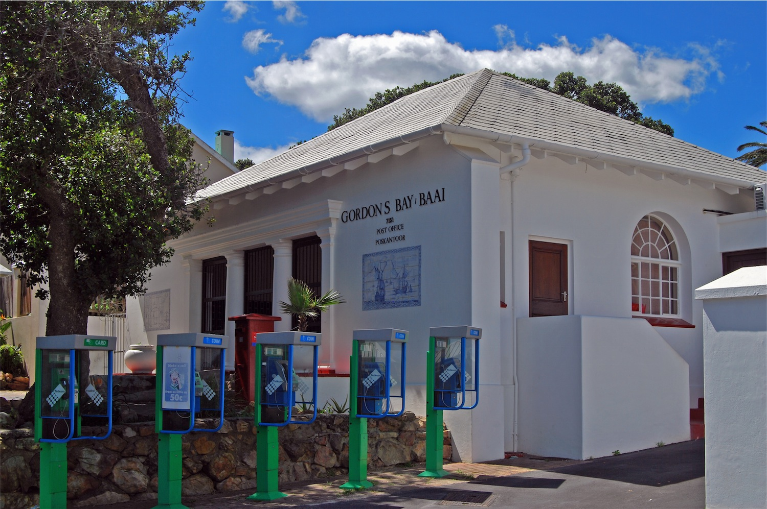 This media shows a South African Protected Site with SAHRA file reference 9/2/089/0002.